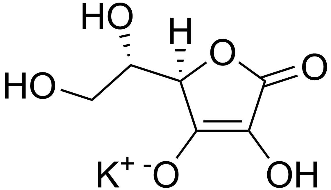 Chemical structure of potassium L-ascorbate